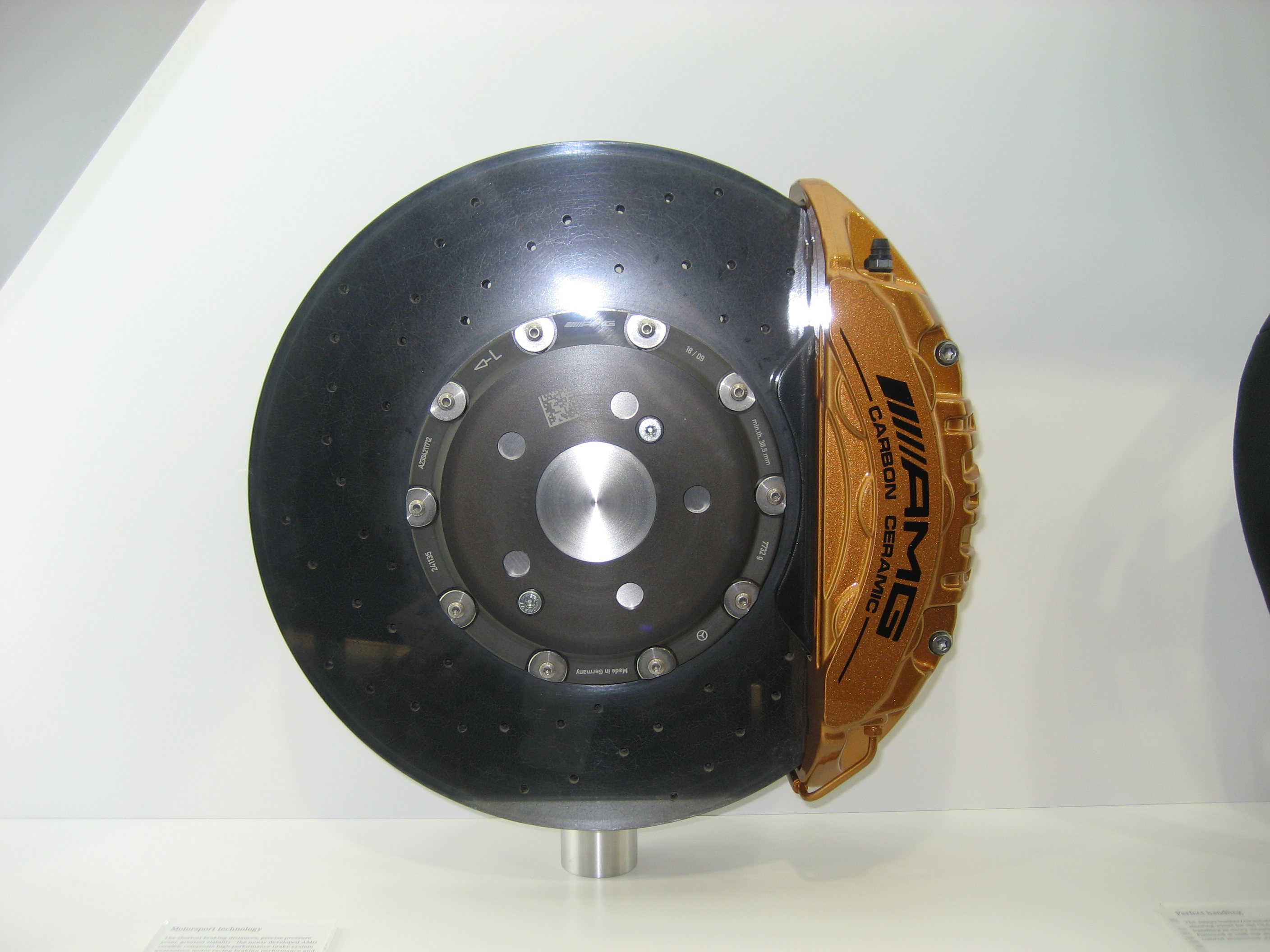 Mercedes AMG Carbon Ceramic disk brake setup.